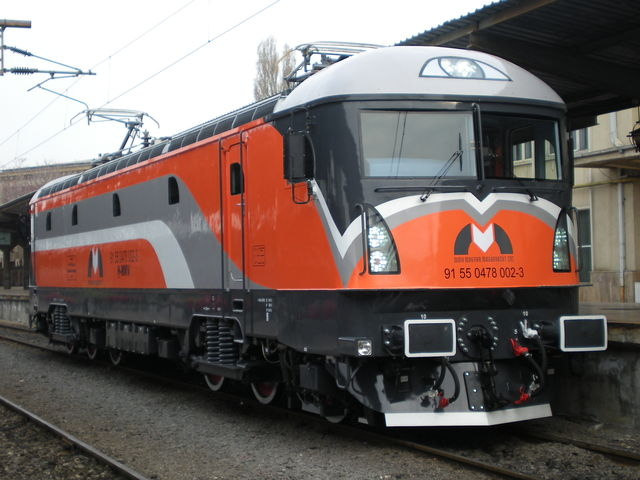 Locomotive class 47 Softronic Phoenix